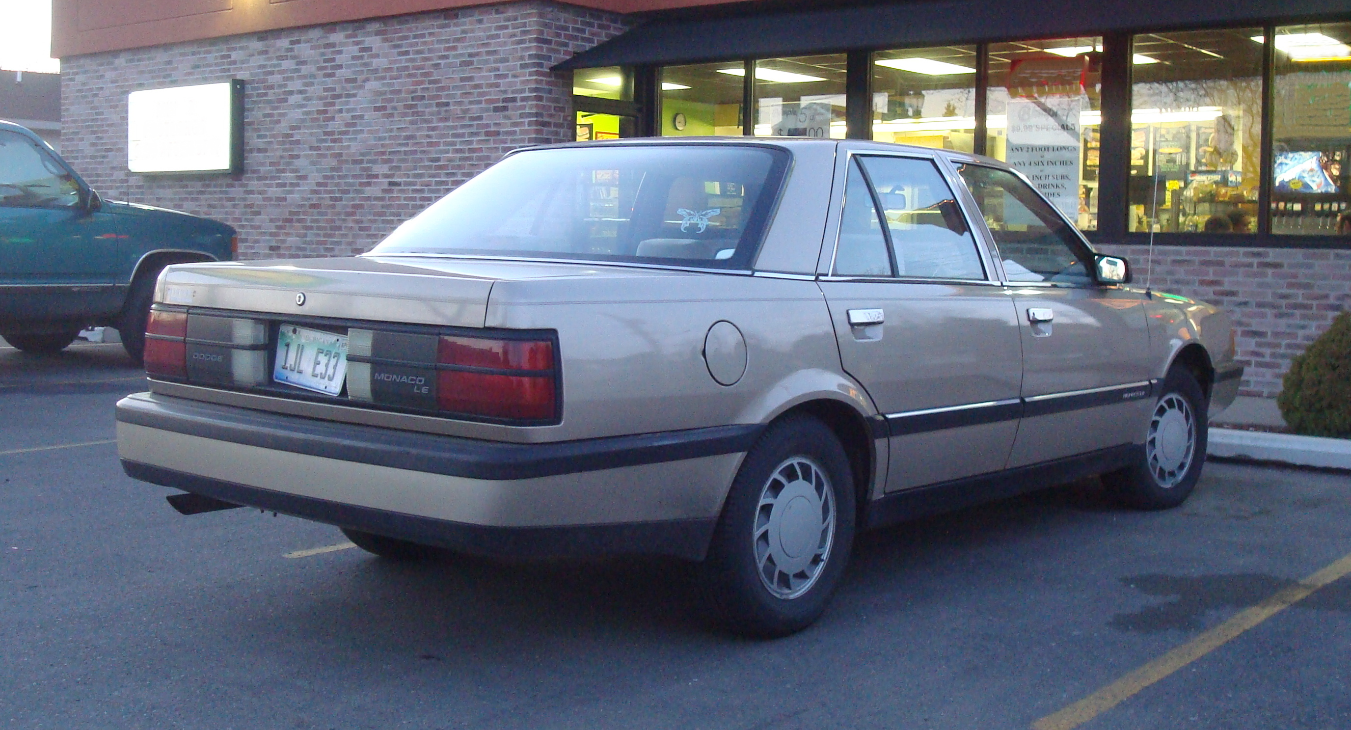 1990-92 Dodge Monaco LE